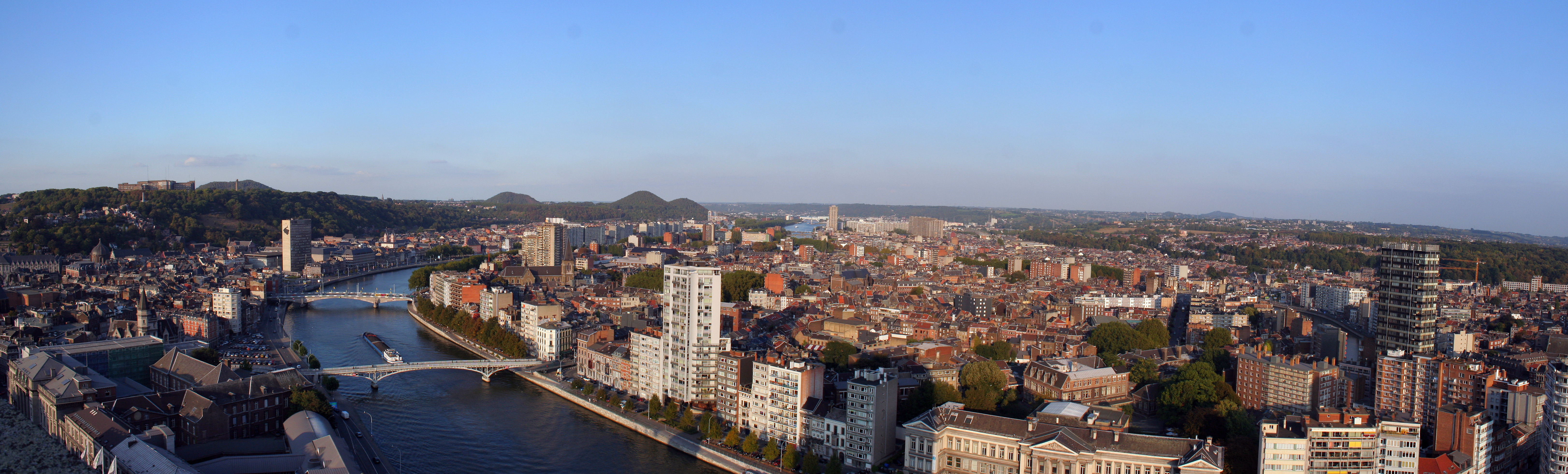 View of Liège, Belgium. This panoramic image is stitched of 5 single shots using PTGui.